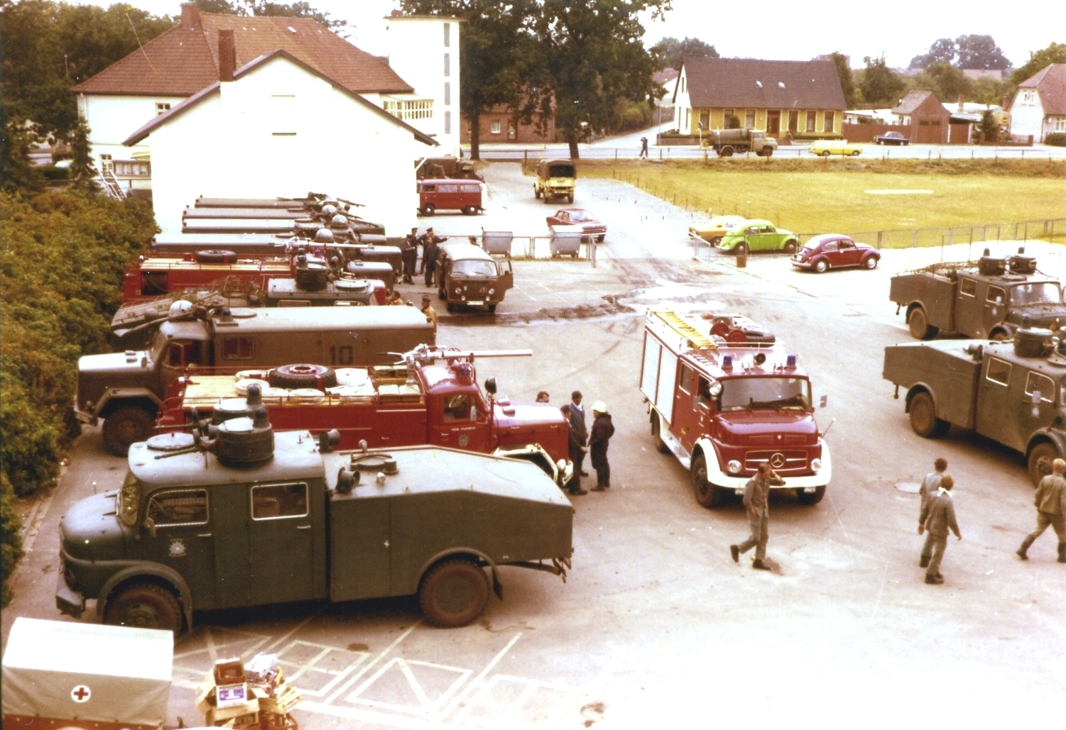 Fire engines of the Bundeswehr, the Bundesgrenzschutz and volunteer fire fighters at the town of Eschede.